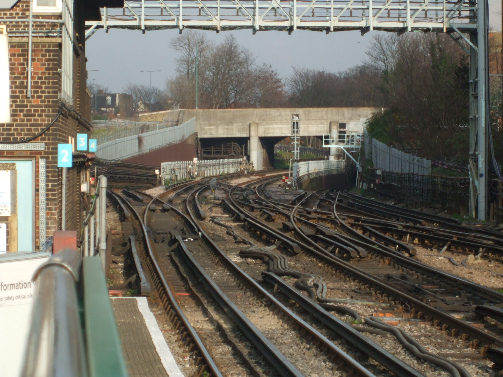 Leytonstone junction, east of the station, where the Hainault branch diverges and heads underground towards Wanstead. Ahead, the Epping branch continues northwards to Snaresbrook and beyond.